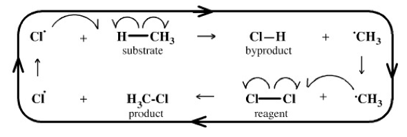 dfsafas